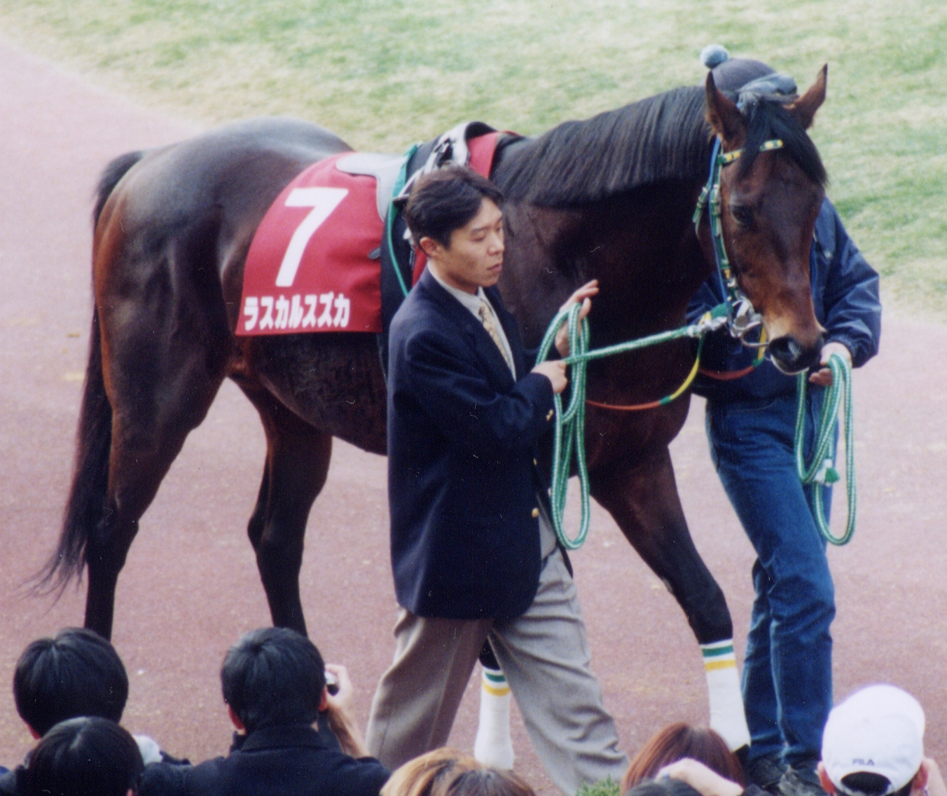 Ruscal Suzuka